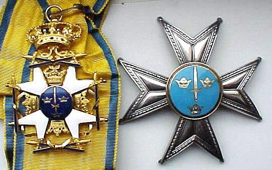 Picture of the Royal Order of the Sword (Sweden) Jewel of a Commander Grandcross on the ribbon of the order and the star of a Commander First Class. Source: Paul hieronymussens book on orders